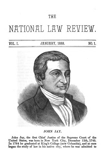 National Law Review 1888 1st volume